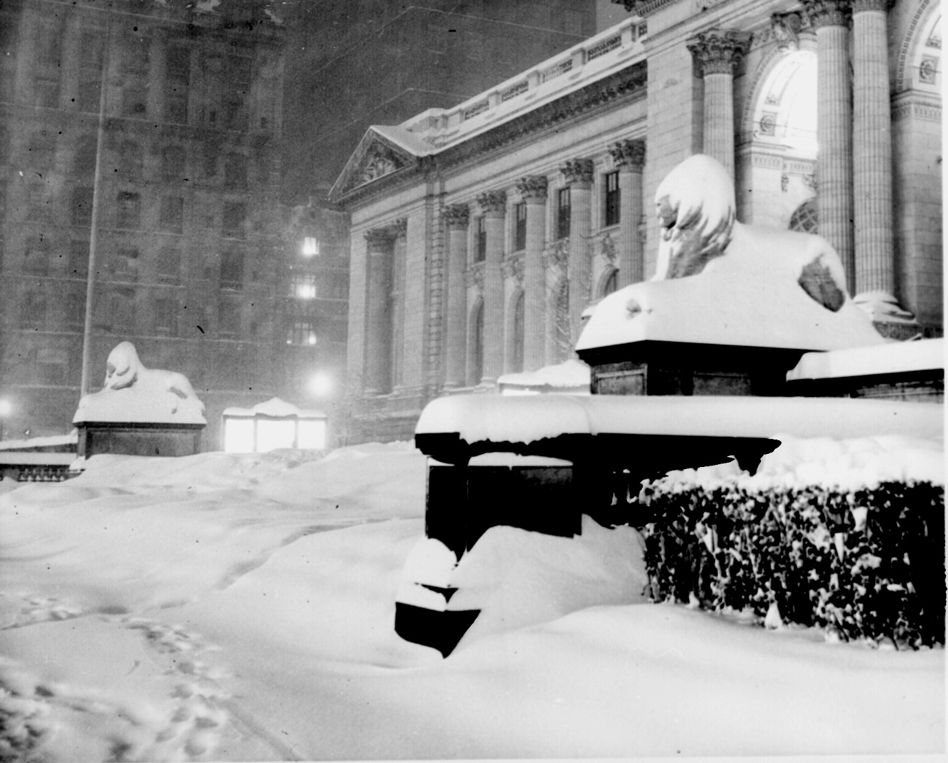 The lion statues at the New York Public Library, with a mantle of snow during the record December 1948 snowfall.